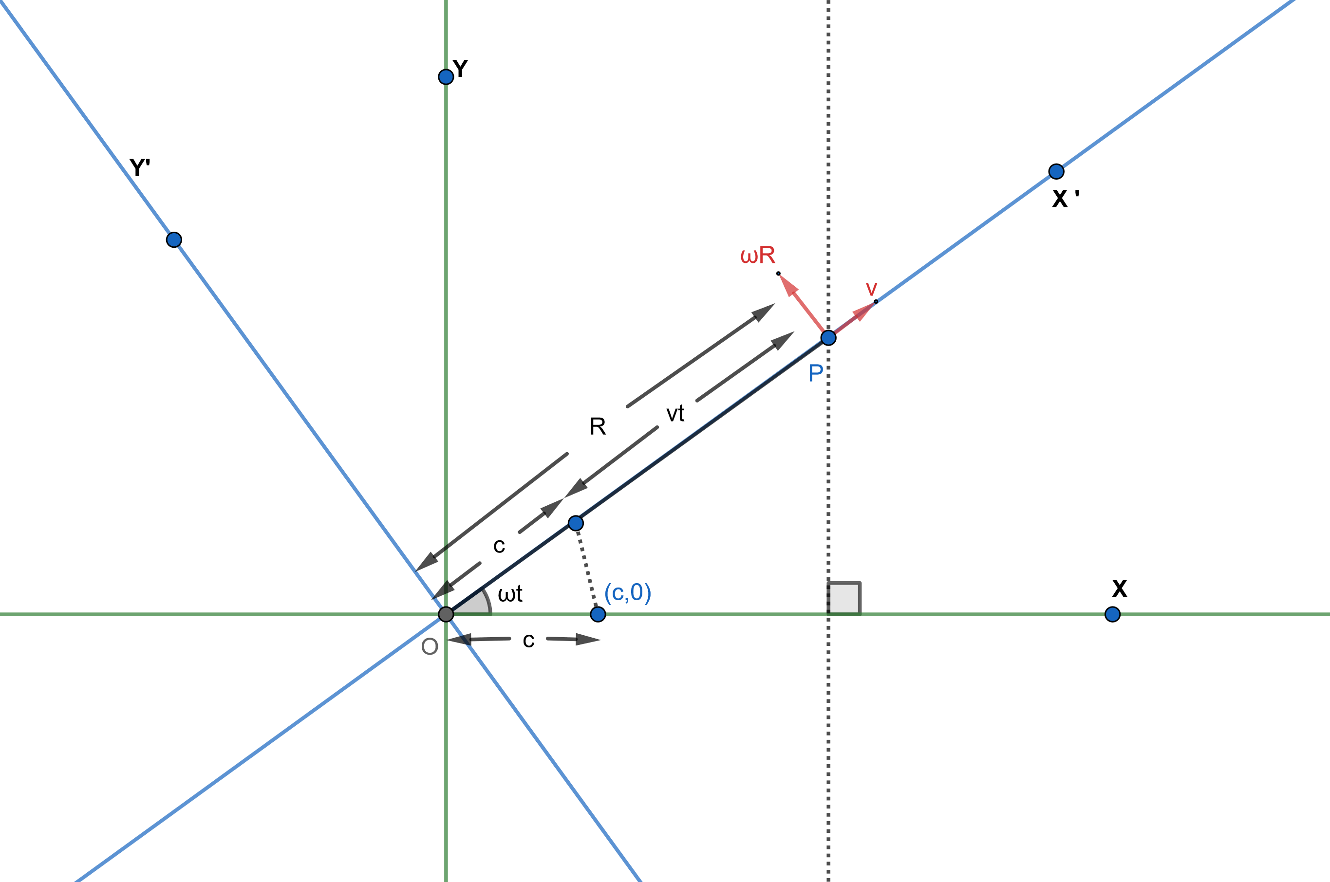 own work